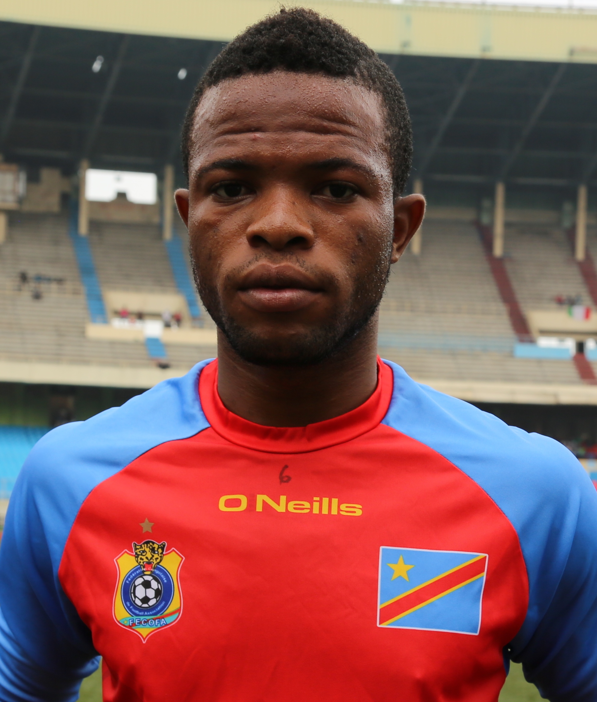 Meschack Elia participating in a MONUSCO Child Protection Unit campaign against recruitment of Child soldiers.